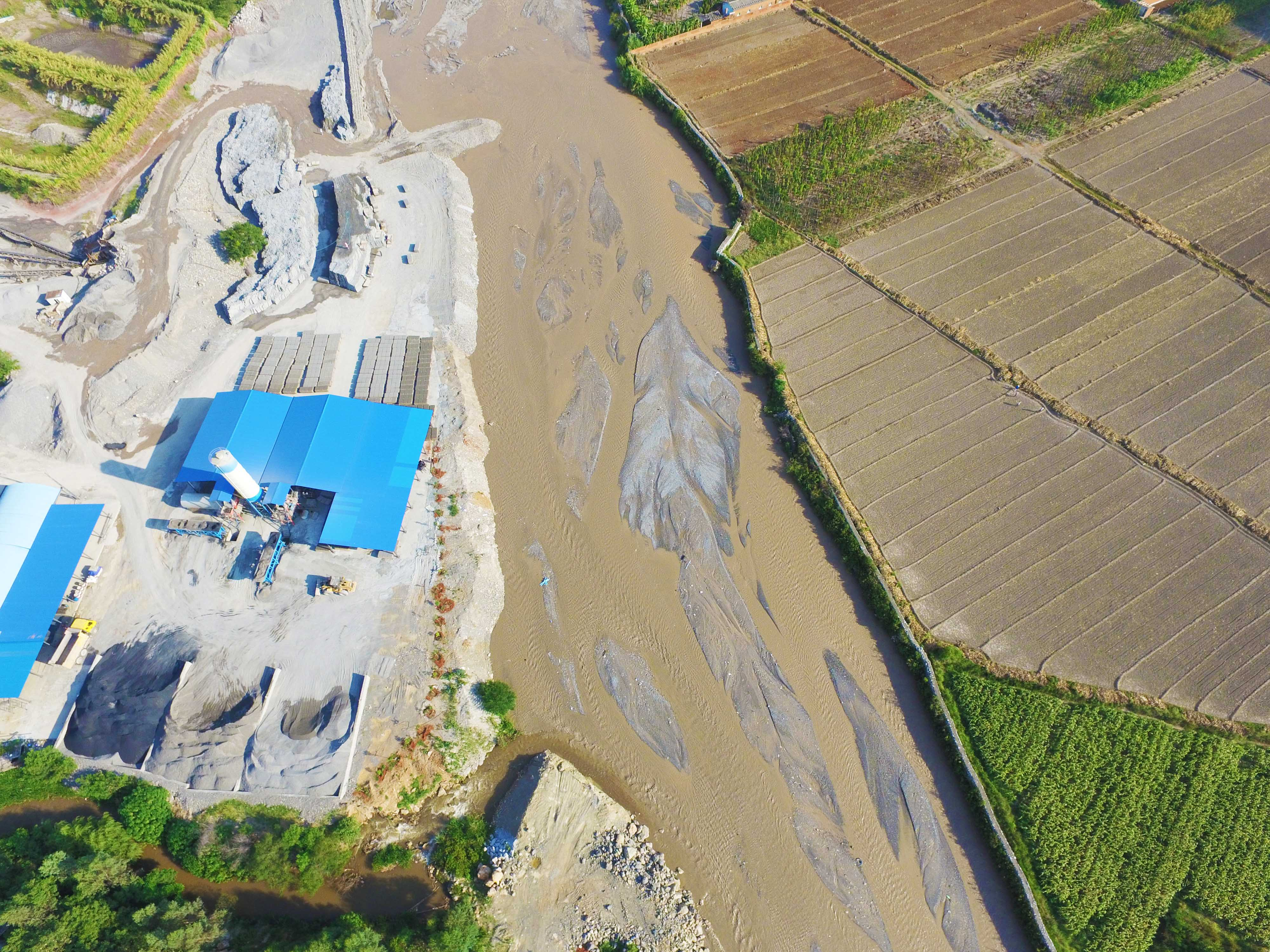 Xiaojiang River near Sanjiangkou in Dongchuan